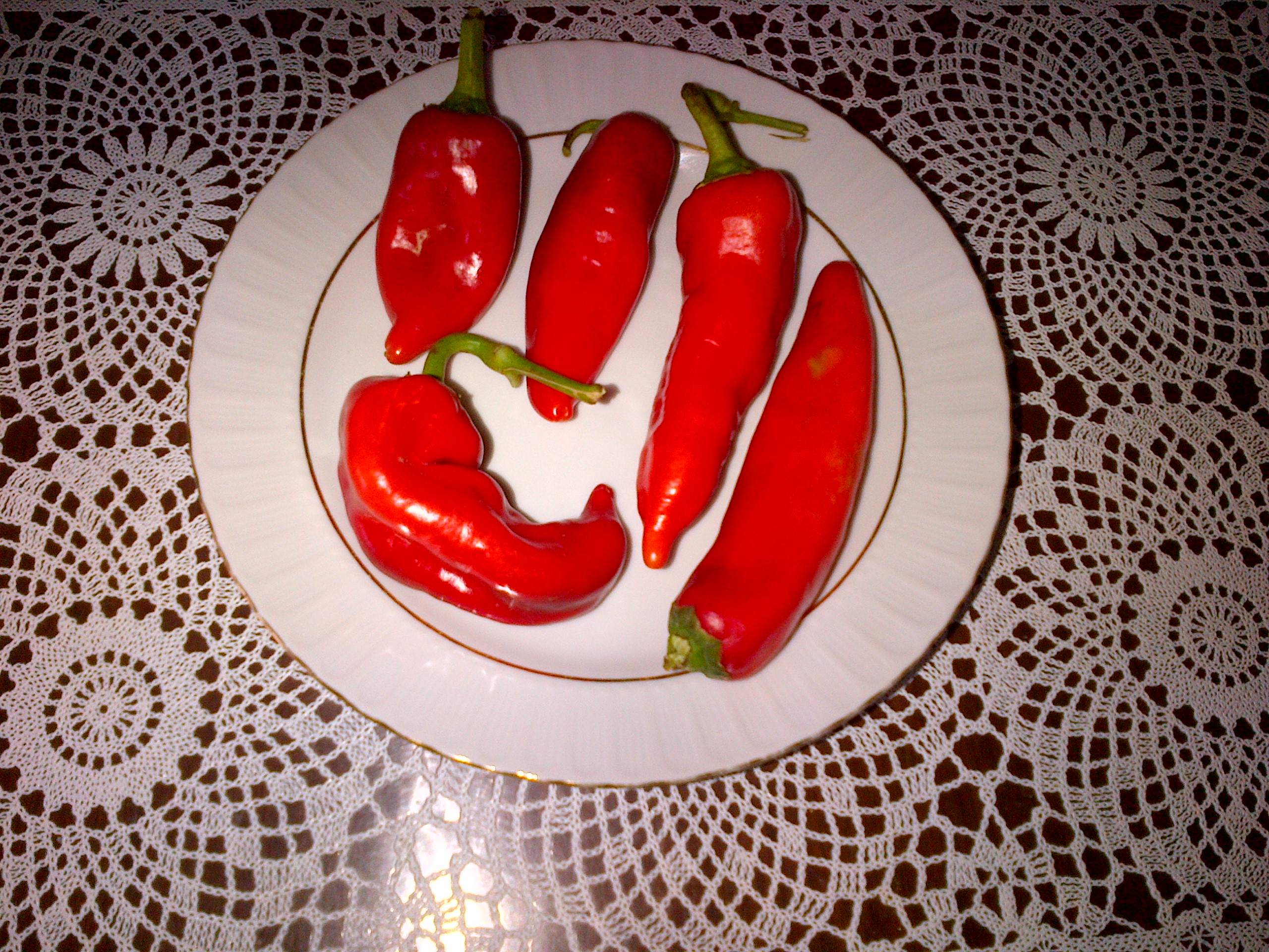 "Terme al biberi", red pepers from the Plain of Terme, they are not hot. Used mainly in making "bibertuzu", a breakfast dip from the Black Sea Region of Turkey.